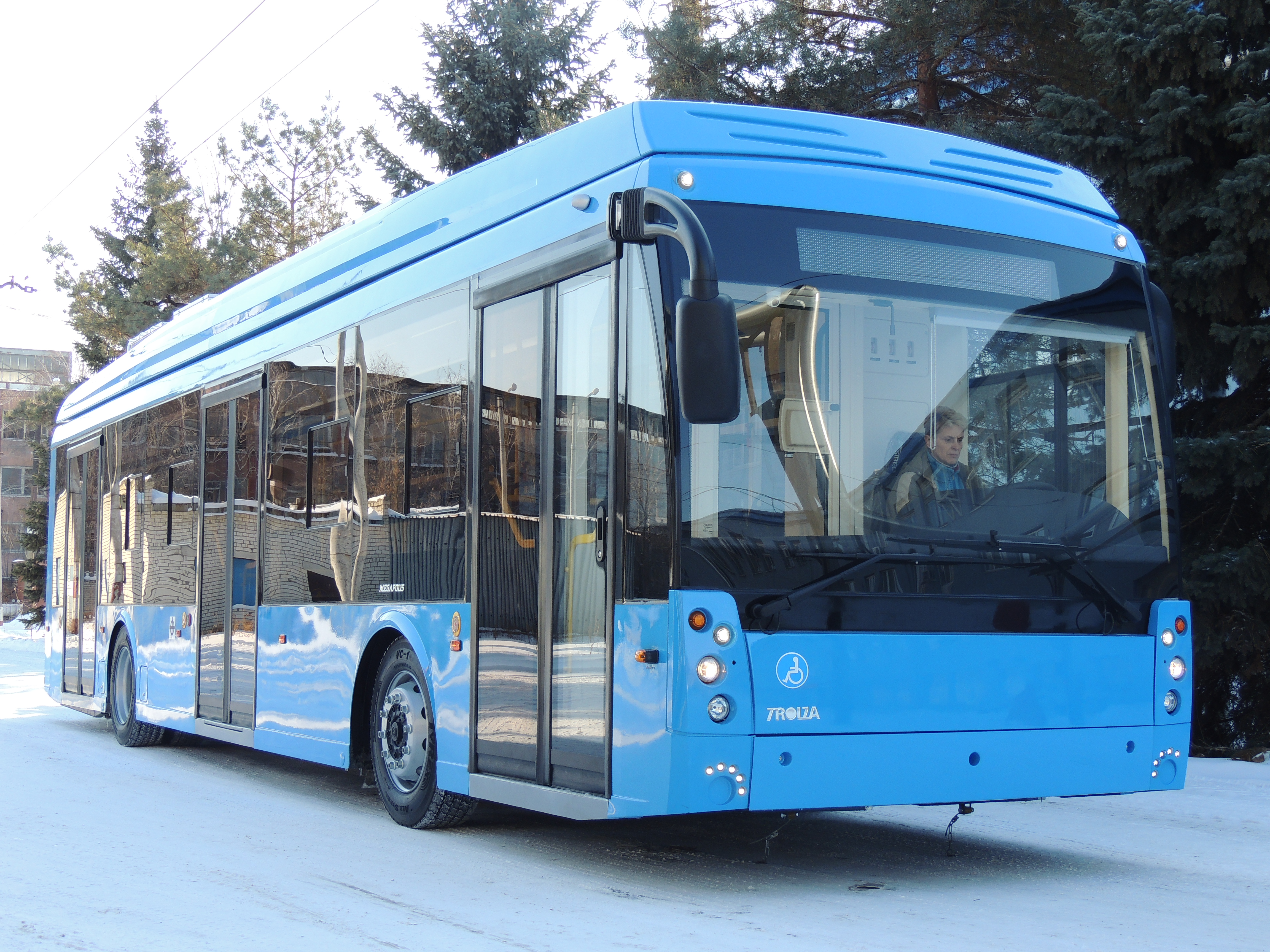 Electric bus